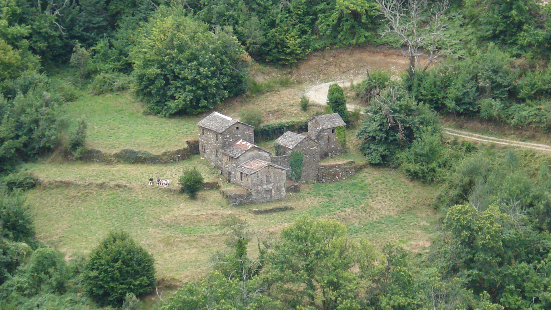 lonesome house in the cevennes in Saint-Étienne-Vallée-Française (Lozère)